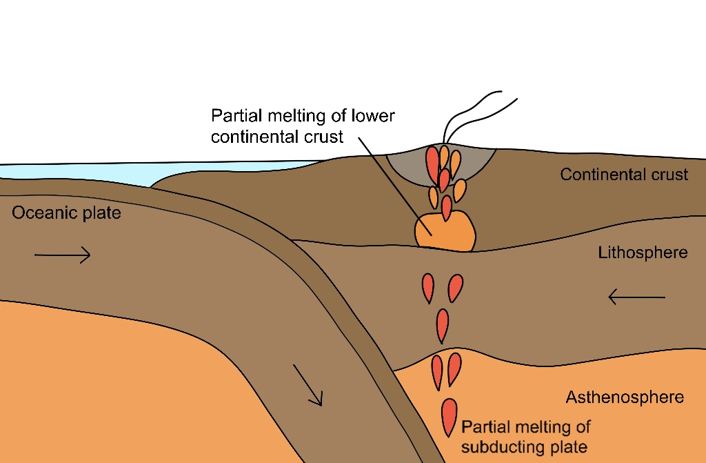 Bimodal volcanism at magmatic arc system. Partial melting of subducting plate and lower continental crust resulted in difference in composition.